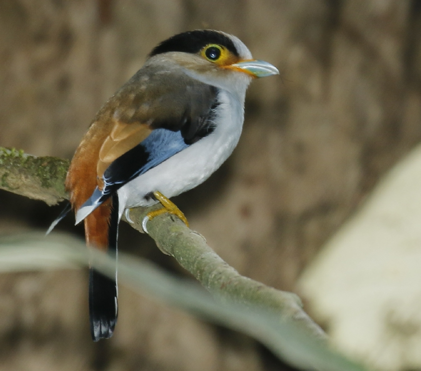 Kaeng Krachan Nat’l Park - Thailand